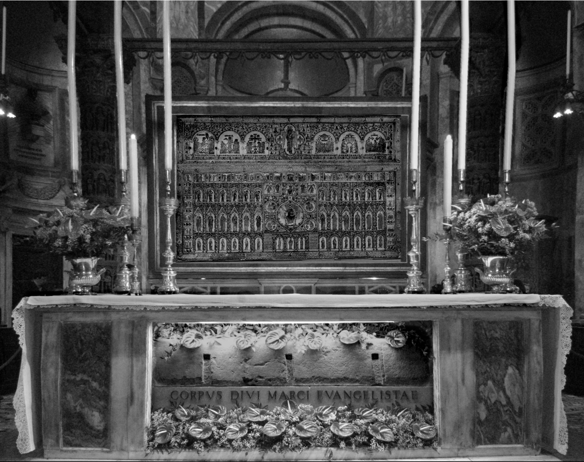 Photo-reconstruction of Pala d'Oro at the main altar of basilica, where it has been exhibited during ages (before mid. XX c.). Montage using Testus's photo of modern interior and old BW photo of altarpiece from russian book "Art of Middle Ages"